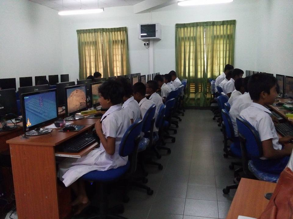 ISURU Linux Learning